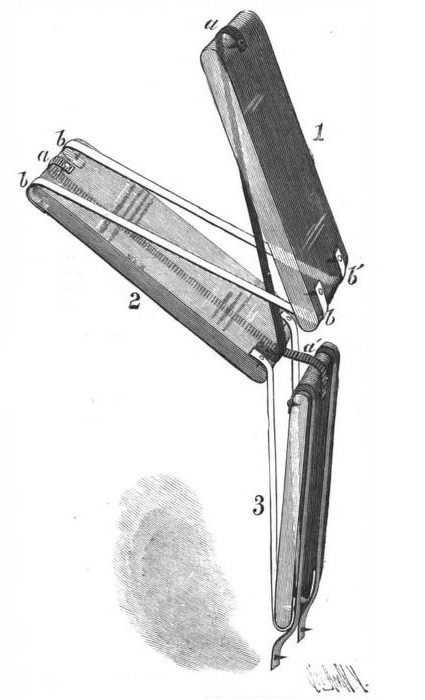 The mechanism of a Jacob's Ladder. The three upper blocks 1, 2, and 3, and tapes a and b. “In Fig. 2 are shown the three upper blocks of the series, 1, 2, and 3, and their connecting tapes, the blocks being represented as transparent and separated from each other a short distance to show the arrangement of the connections. Block 1 has attached to it three tapes, a, b, b. The tape, a, is attached to the face of the block at the center, at the upper end, and extends over the rounded end of the this block and under the rounded end of block 2. The tapes, b, b, are attached to the face of block 1, extending downwardly under the lower end of this block and upwardly over the upper end of block 2. The tape, a, which is attached to the center of the upper face of block 2, extends over the end of this block, downward underneath, the block, and over the upper end of block 3, where it is secured. This arrangement of tapes is observed throughout the entire series. In Fig. 2, block 2 is represented as falling away from block 1. When block 2 reaches block 3, the tape, a, will be parallel with the face of block 3, and the latter will be free to fall in a right-handed direction in the same manner as block 2 is falling in a left-handed direction. When block 3 is parallel with block 4, the fourth block will fall over in the left-handed direction. The blocks, which are of pine, are each 3 5/8 inches long, 2 3/8 inches wide, and 1/4 inch thick. The tapes, which are each 4 3/4 inches long and 3/16 wide, are fastened at their ends to the blocks by means of glue and by a small tack driven through each end of the tape, as shown.” —"Jacob's Ladder", Scientific American, Vol. 61, No. 15 (October 1889)